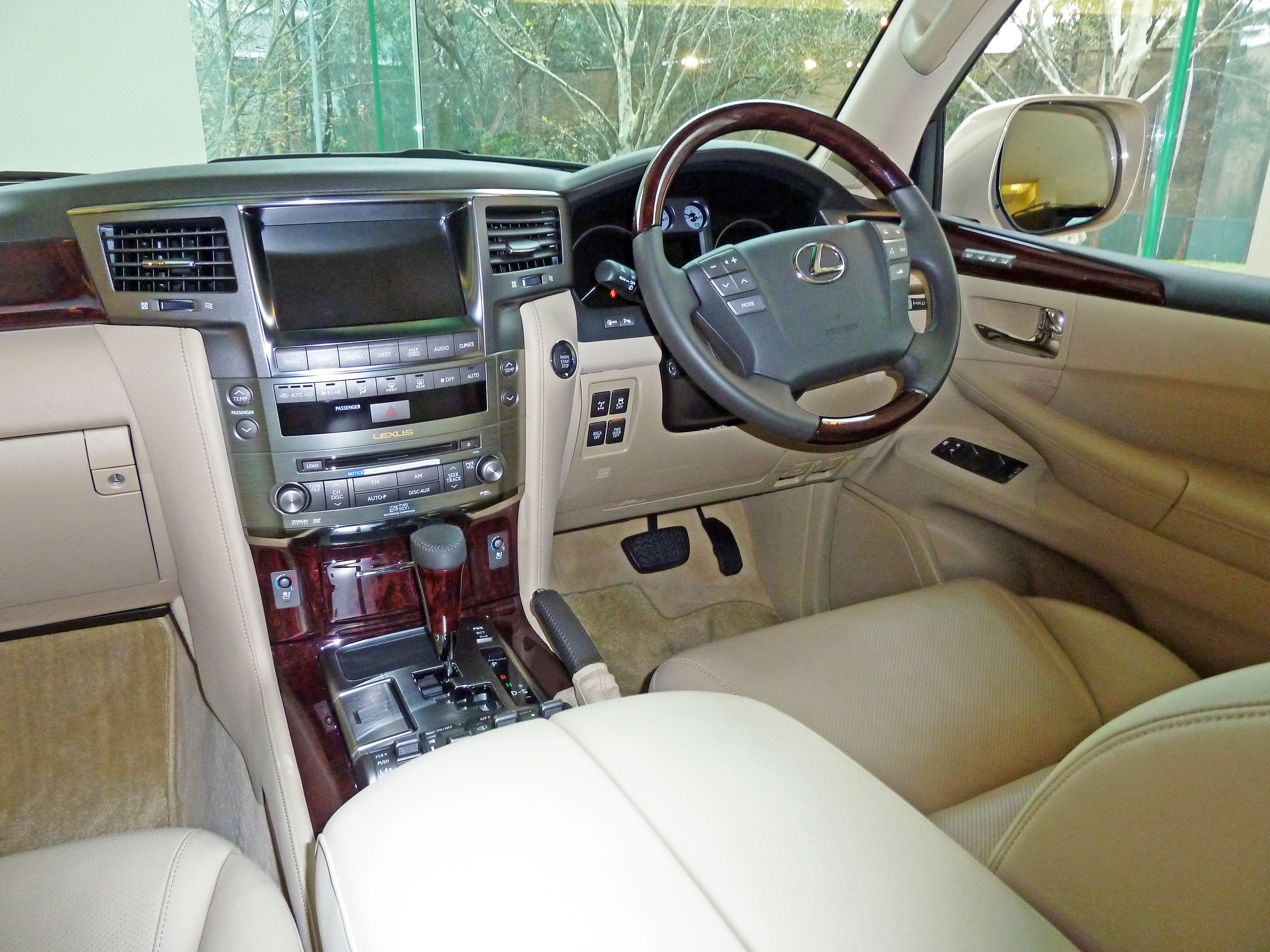 2008 Lexus LX 570 (URJ201R) Sports Luxury wagon. Photographed at Sydney City Lexus, Waterloo, New South Wales, Australia.